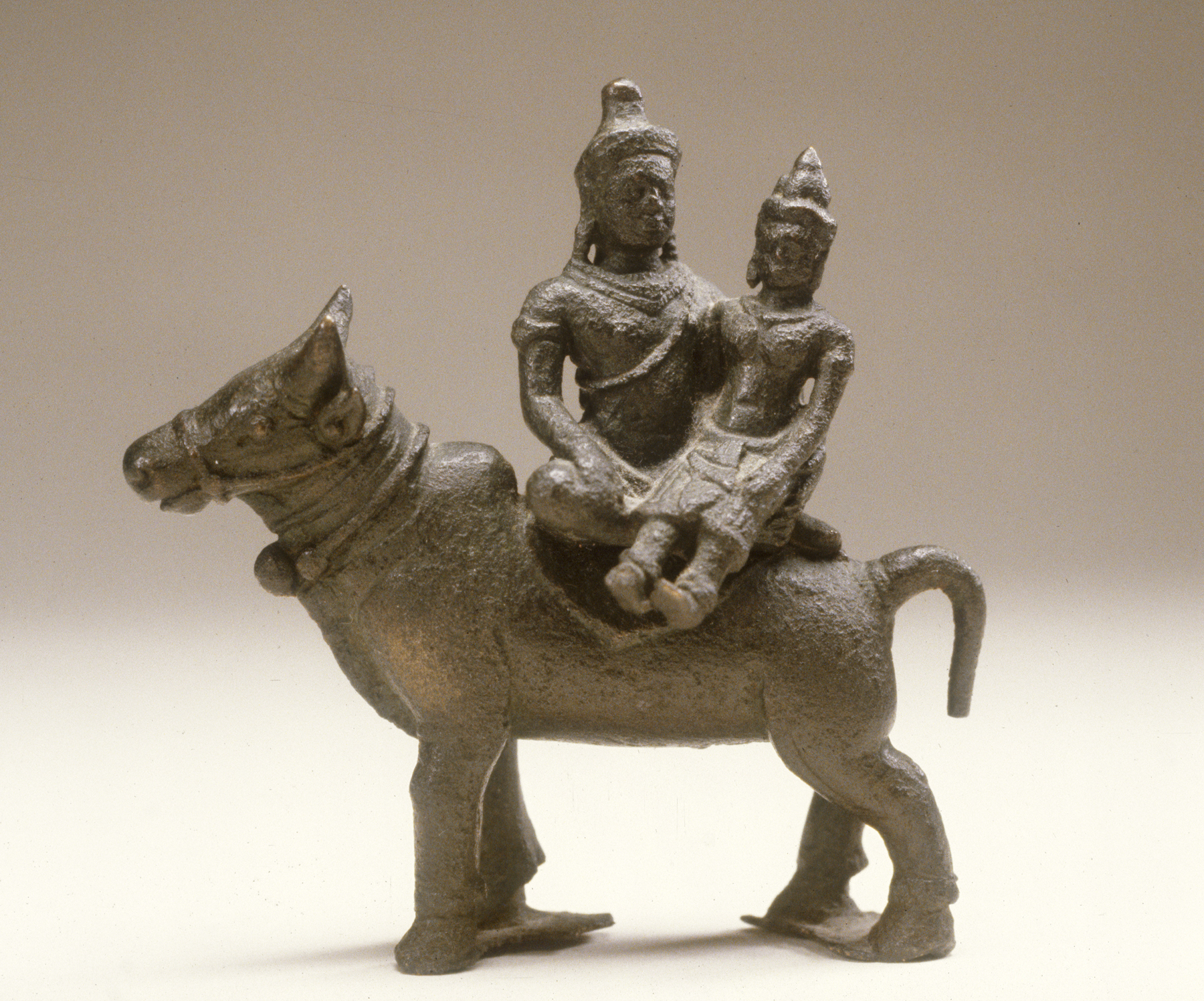 Here is the Hindu god Shiva with his spouse, as they appear in their mountain paradise.